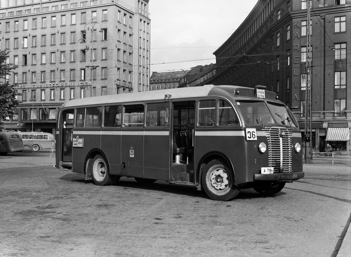 HKL Scania-Vabis B15V / Helko bus (1949, A-794, #133) in Rautatientori, Helsinki